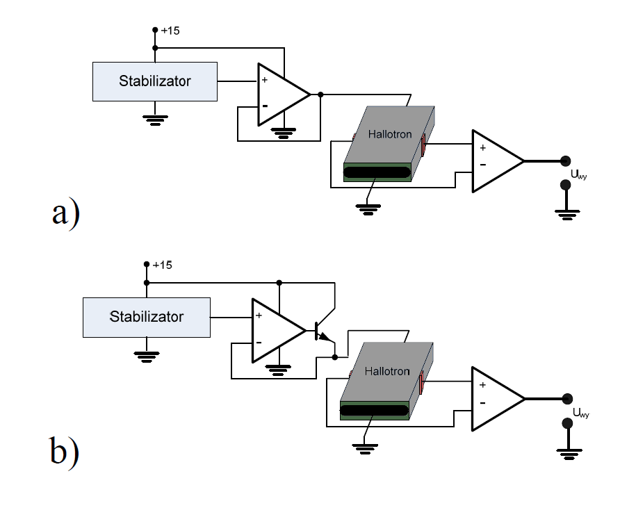 Hall effect sensor power supply